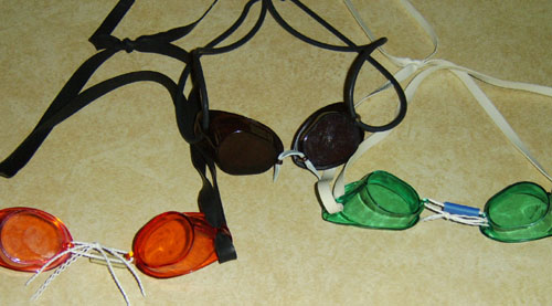 Various types of Swedish style goggles.